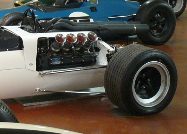 The rear end of a McLaren M2B Formula One car, showing the Ford V8 engine installation. Image cropped by Pyrope.